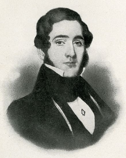 Image of the young Joseph LaBarge, taken from book by Chittenden, Hiram Martin, 1903, p. xvi